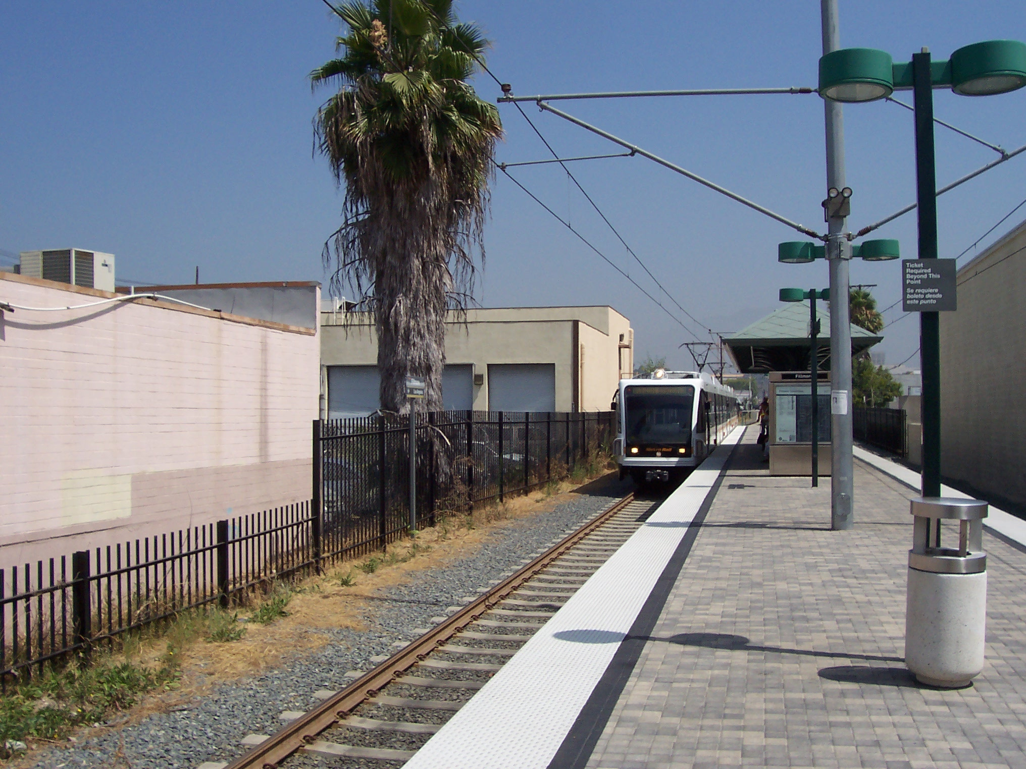 A Southbound train pulls into Fillmore street station